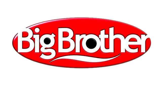 FAN MADE Logo for Big Brother Croatia 2.